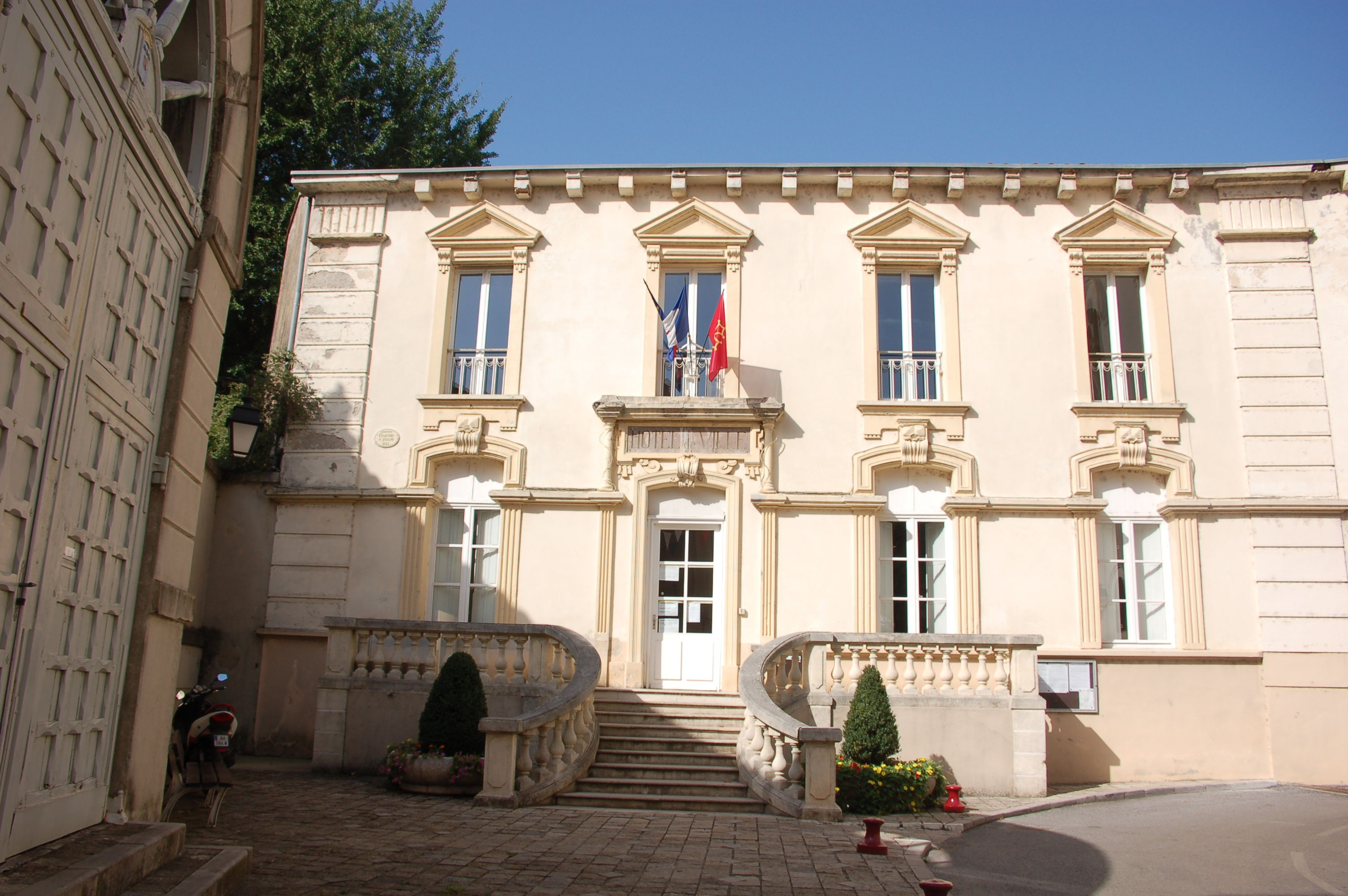 The mayor of Sumène, former prison.